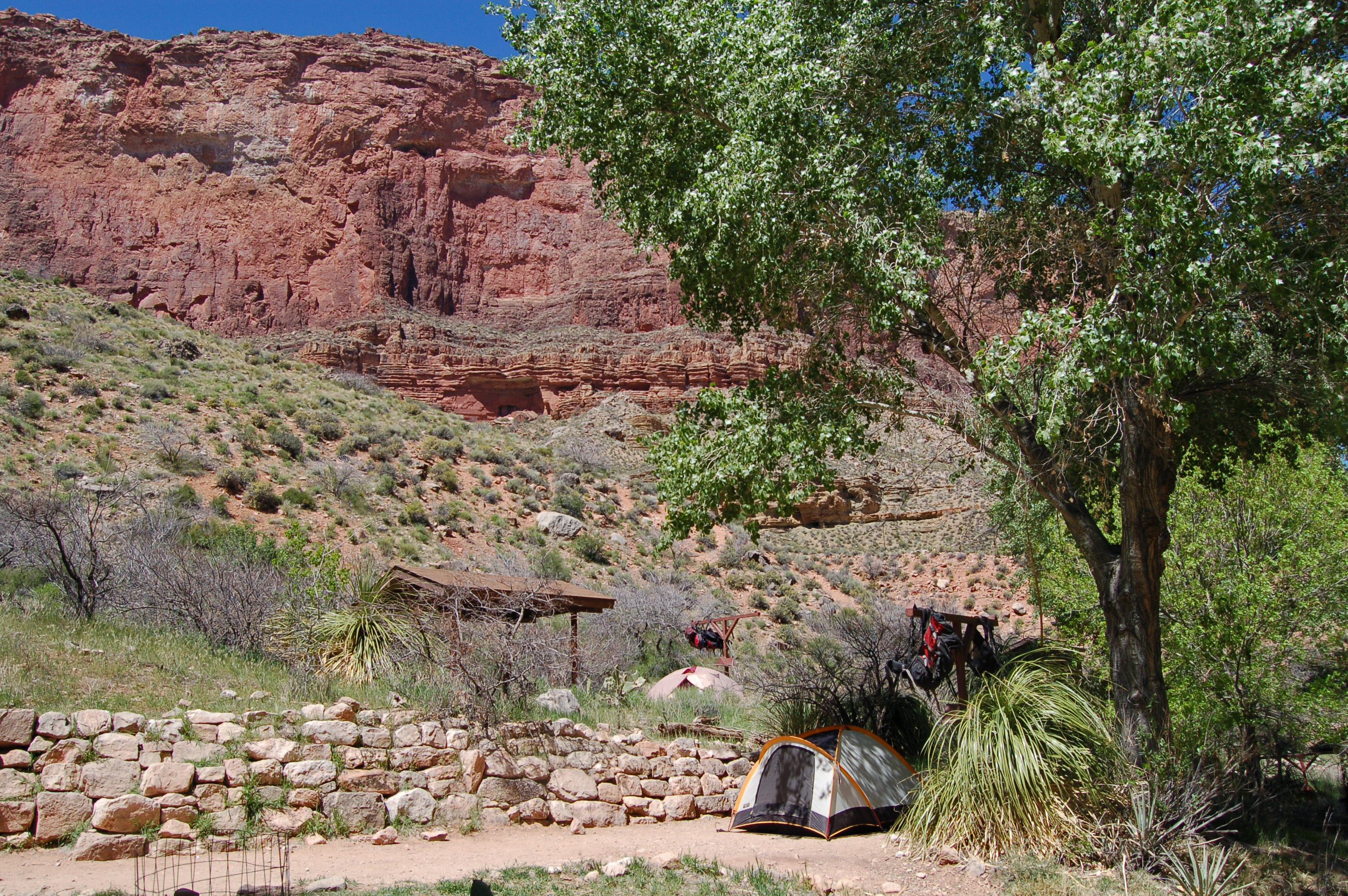 Indian Garden Campground (CIG), located along the Bright Angel Trail, is a beautiful riparian area filled with cottonwood trees. A small creek passes through on its way to the Colorado River. To camp in this campground you must obtain first a backcountry permit. Indian Garden is 4.8 miles below the South Rim. Indian Garden has a ranger station, emergency phone, year-round potable water, and toilets. Mule trains stop to rest on their way to Phantom Ranch. Day hike destinations include Plateau Point (with panoramic views of the Colorado River). Every campsite at Indian Garden Campground has a picnic table, pack pole, and metal food storage can. All food, toiletries, and plastics must be placed inside the food storage can. Plateau Point is 1.5 miles ( 2.4 km ) beyond Indain Garden. This is a strenous day hike that takes from 8-12 hours. The total round trip is 12.2 miles ( 19.6 km ) The change in elevation is 3,195 feet ( 974 m ) NPS Photo by Michael Quinn.